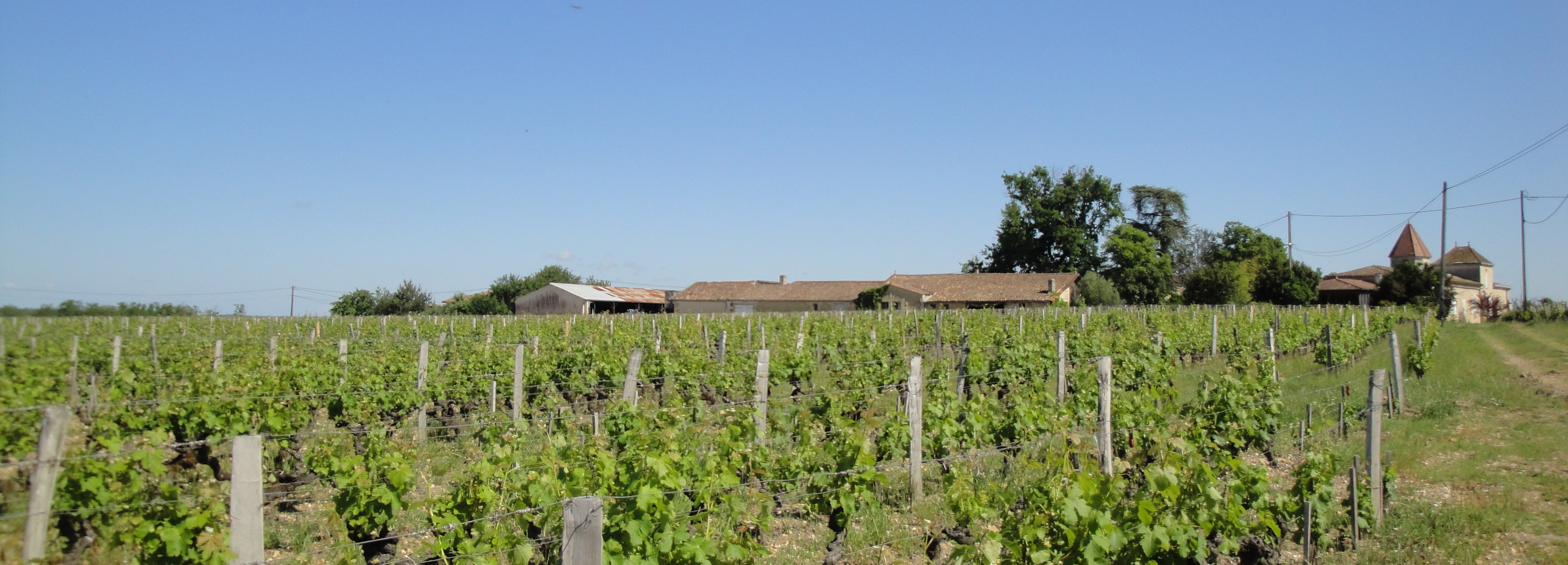 Château Rabaud-Promis, and some its vineyards, as seen from neighbouring estate Château Sigalas-Rabaud.